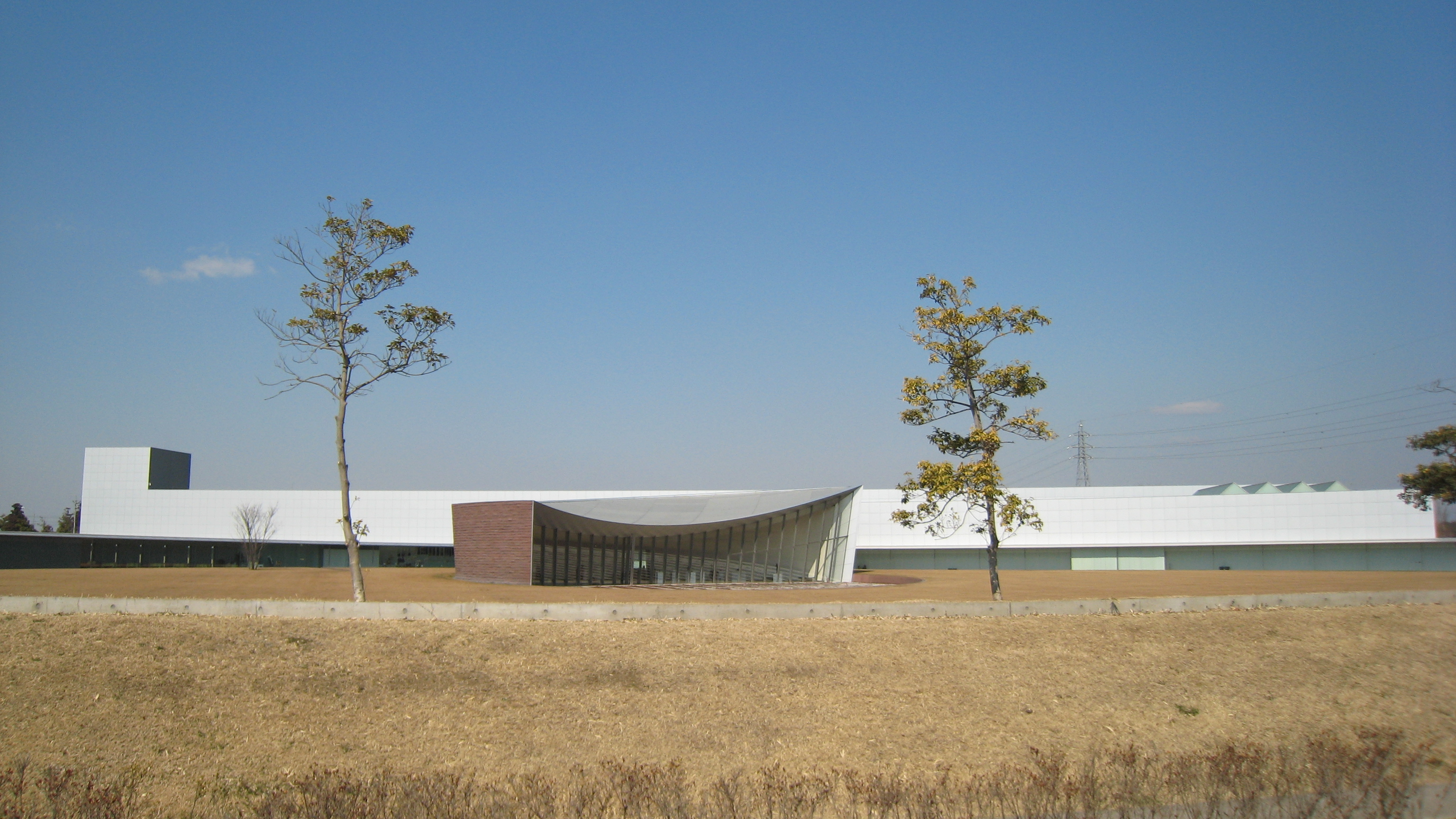 Whole View of Gunma Museum of Art,Tatebayashi in Tatebayashi city,Gunma Prefecture,Japan. taken at 8,March,2008 by Taketarou